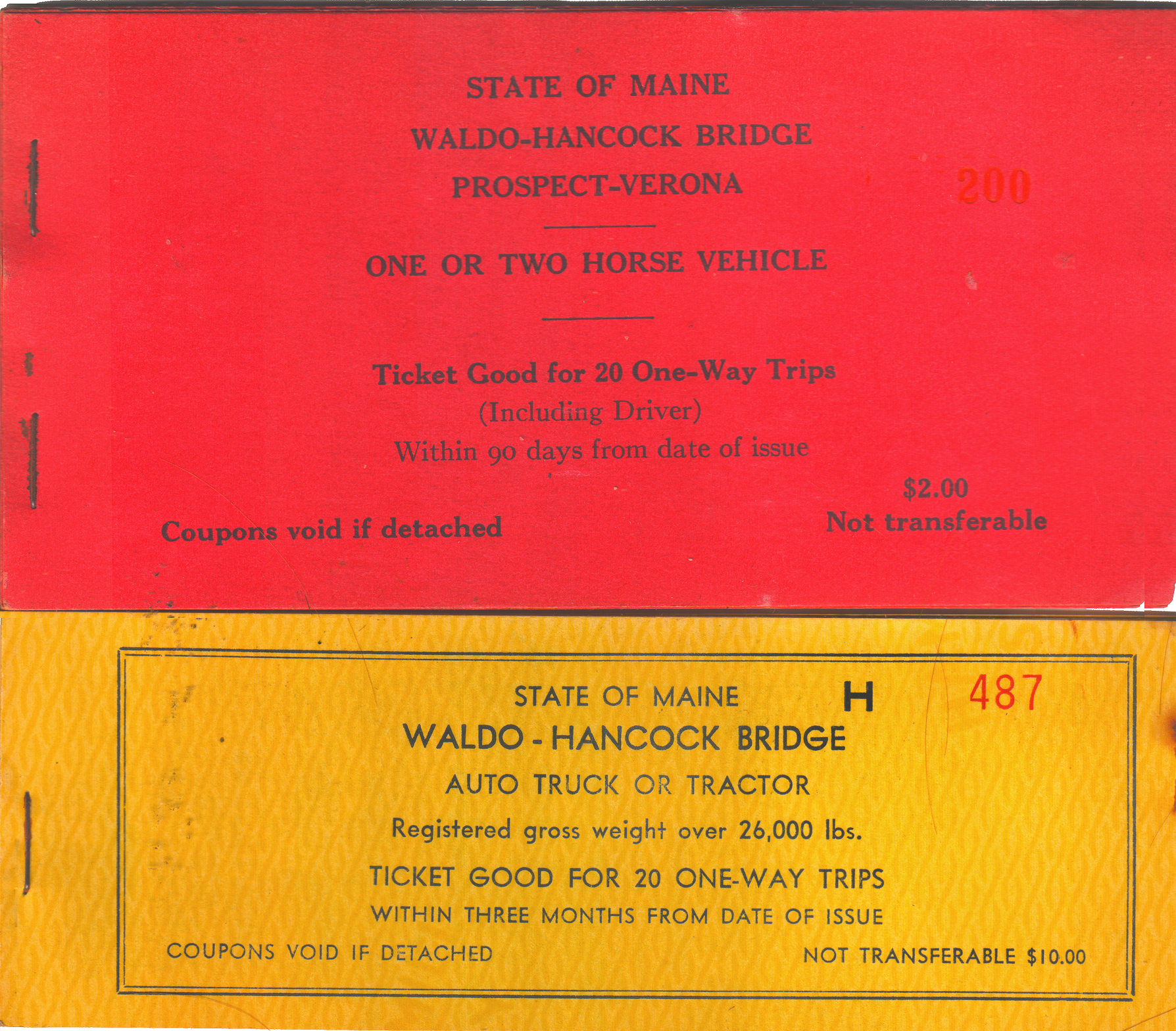 Waldo - Hancock Bridge toll ticket books (for 20 one-way trips) for "One or two horse vehicles, including driver" at $2.00 (10¢/crossing) and "Auto truck or tractor over 26,000 pounds" at $10.00 (50¢/crossing) between Prospect, ME and Verona, ME, c1935.